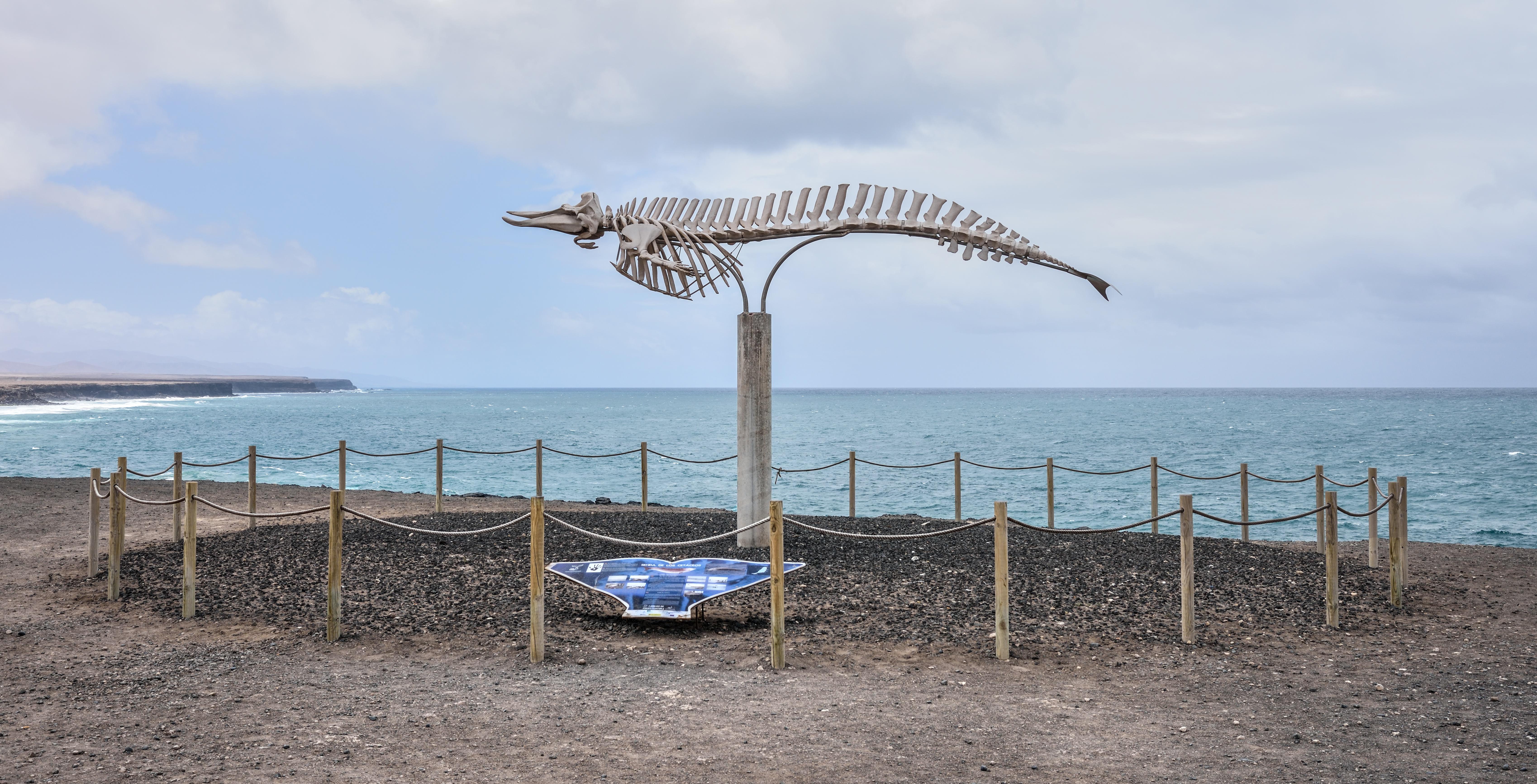 El Cotillo on Fuerteventura, Canary Islands: skeleton of a Cuvier's beaked whale (Ziphius cavirostris) which was found beached here in July 2004.